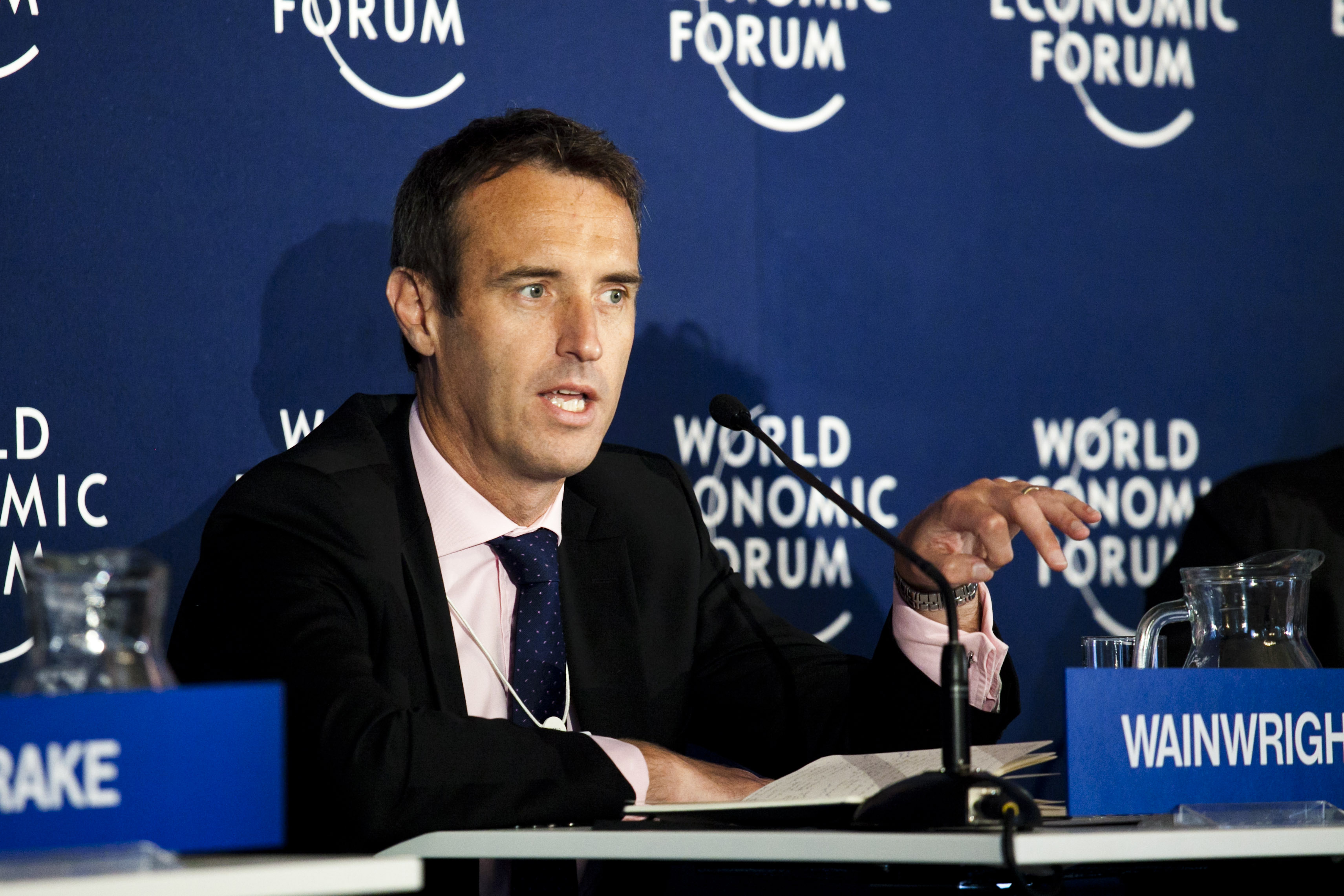 VIENNA/AUSTRIA, 9JUN11 - Robert Wainwright, Director, Europol (European Police), The Hague at the World Economic Forum on Europe and Central Asia held in Vienna, Austria, June 9, 2011. Copyright World Economic Forum ( by Heinz Tesarek